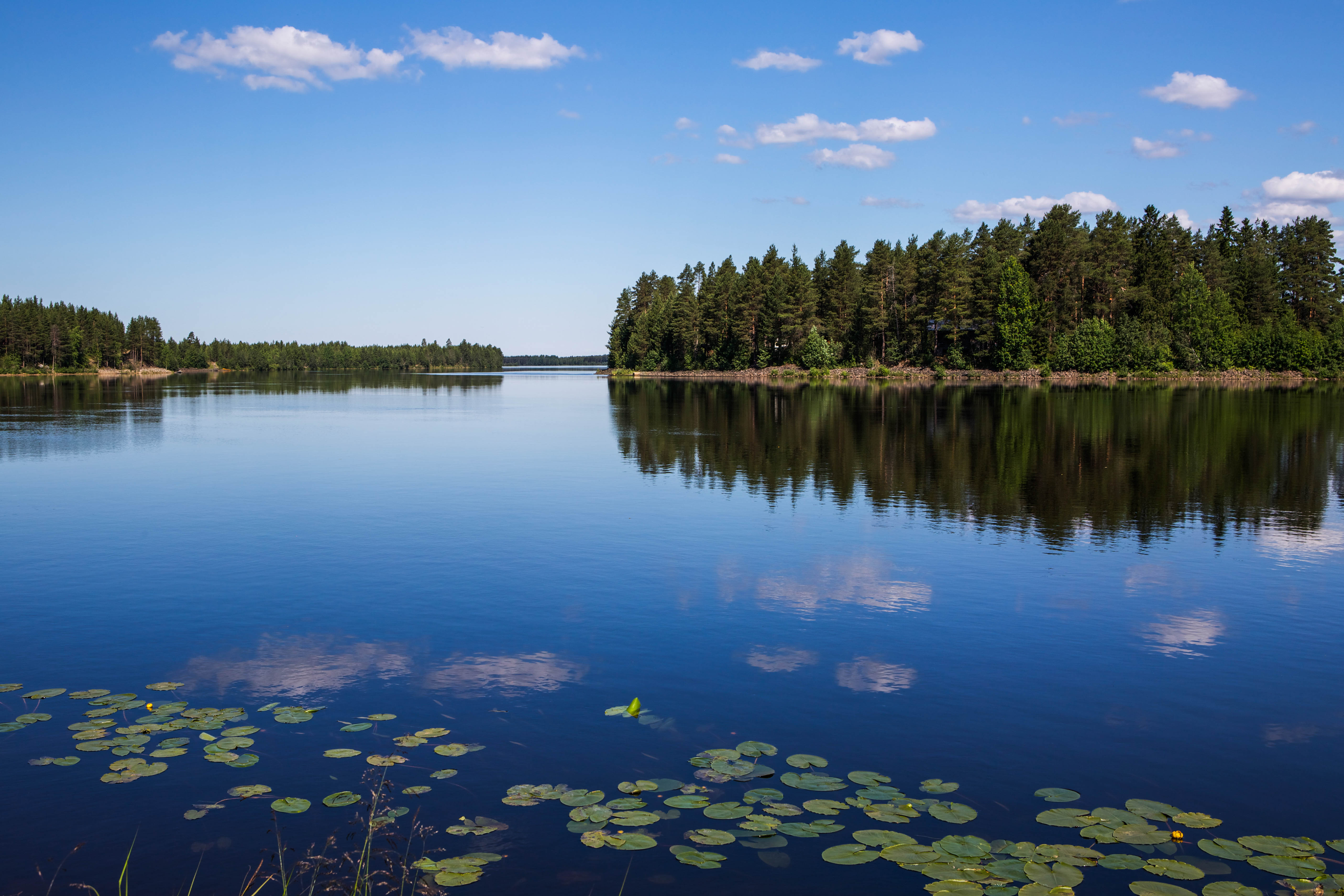 Iijoki Yli-Ii Finland